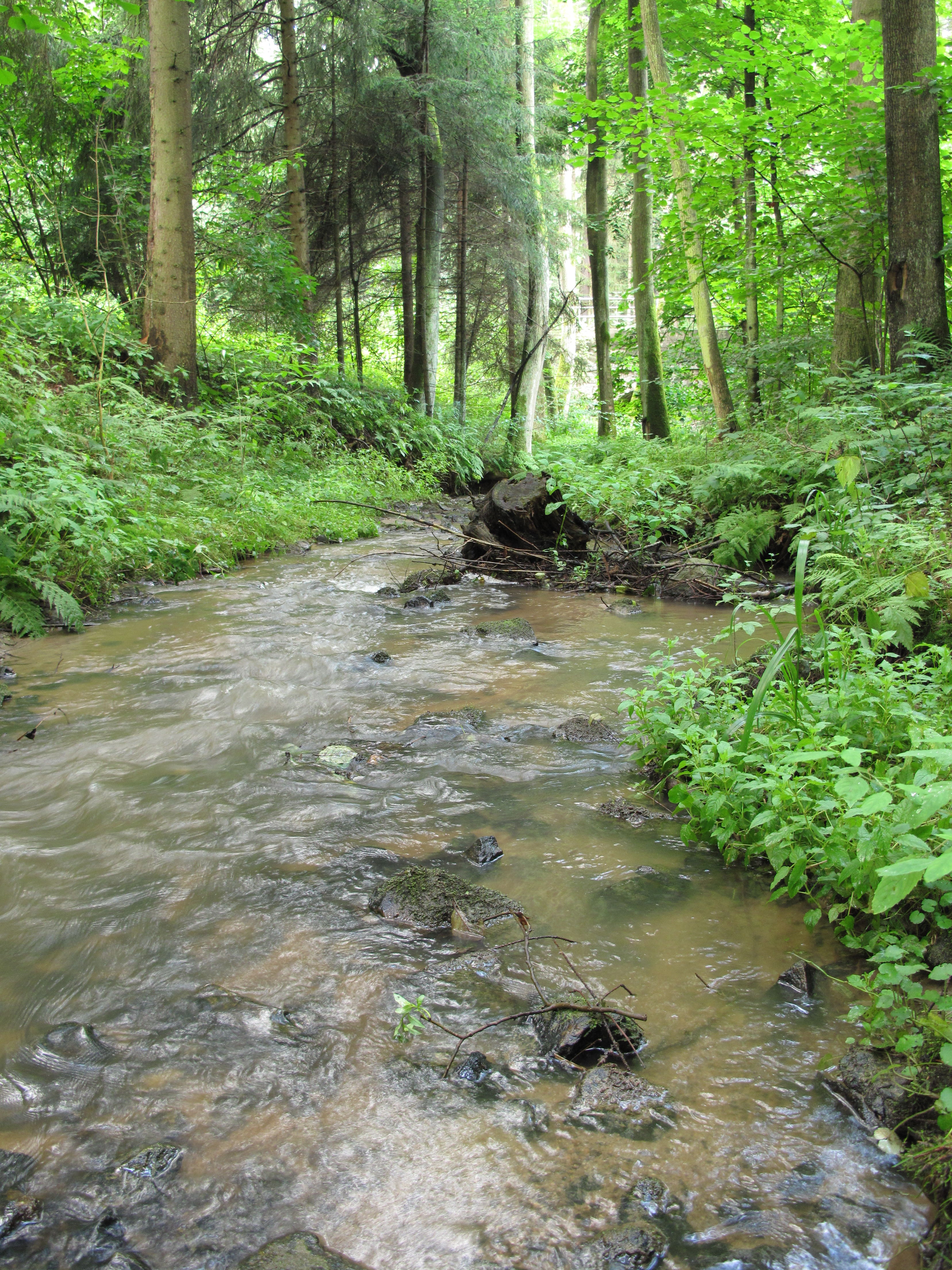 Left branch of Okrouhlický Stream near Dlouhé Pole village, Benešov District, Czech Republic.